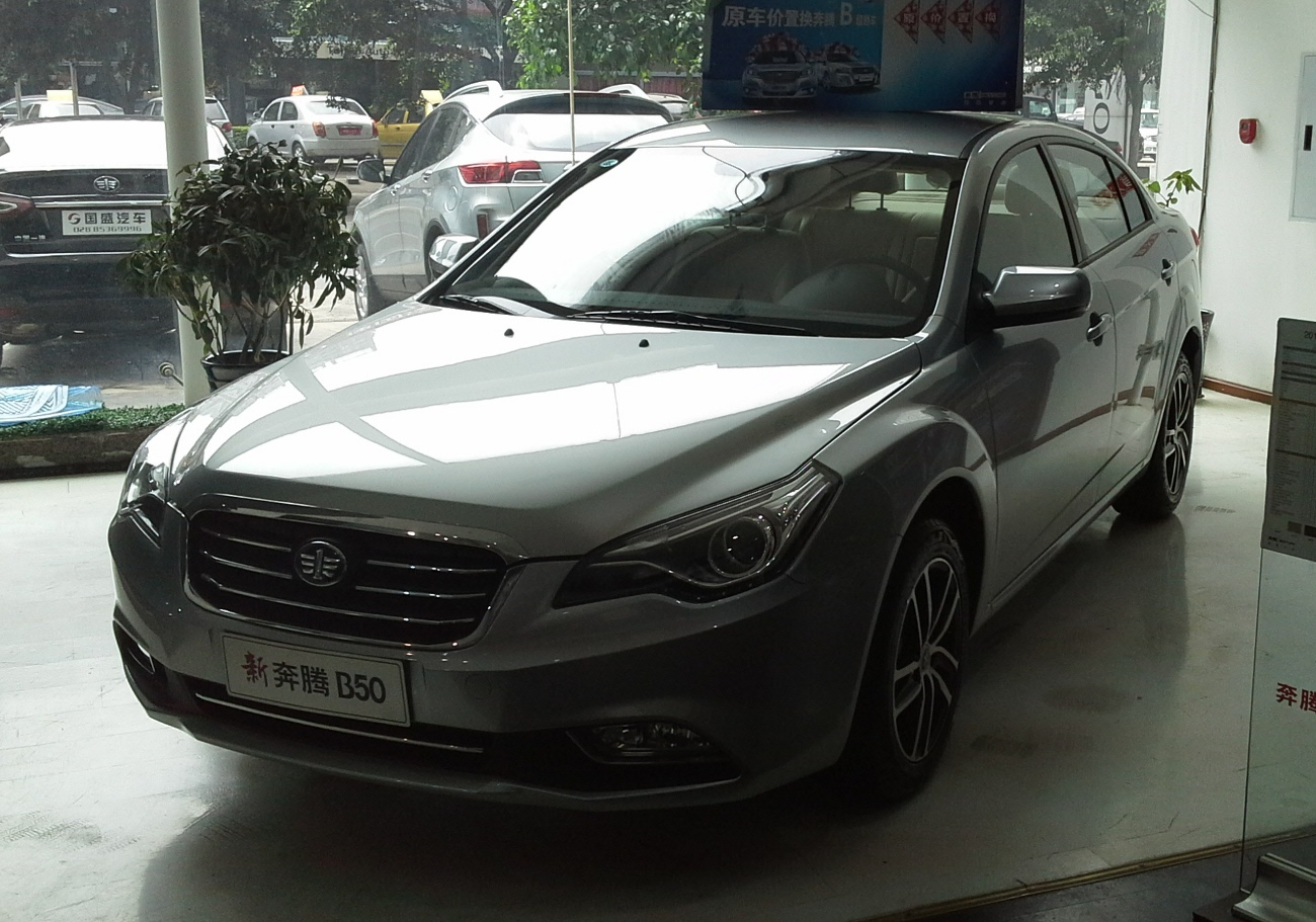 Besturn B50 facelift photographed in Chengdu, Sichuan province, China.